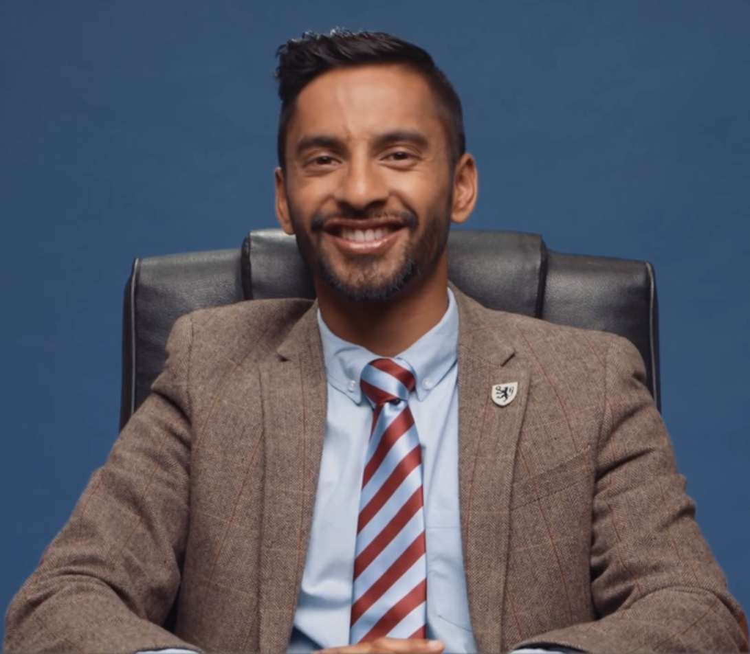 English mathematician and educator Bobby Seagull in an advertisement for Argos, UK retailer. Cambridge University graduate and quiz show master Bobby Seagull goes up against Amazon Alexa, Apple HomePod and Google Home in the ultimate battle of the wits. Who will be crowned the winner?